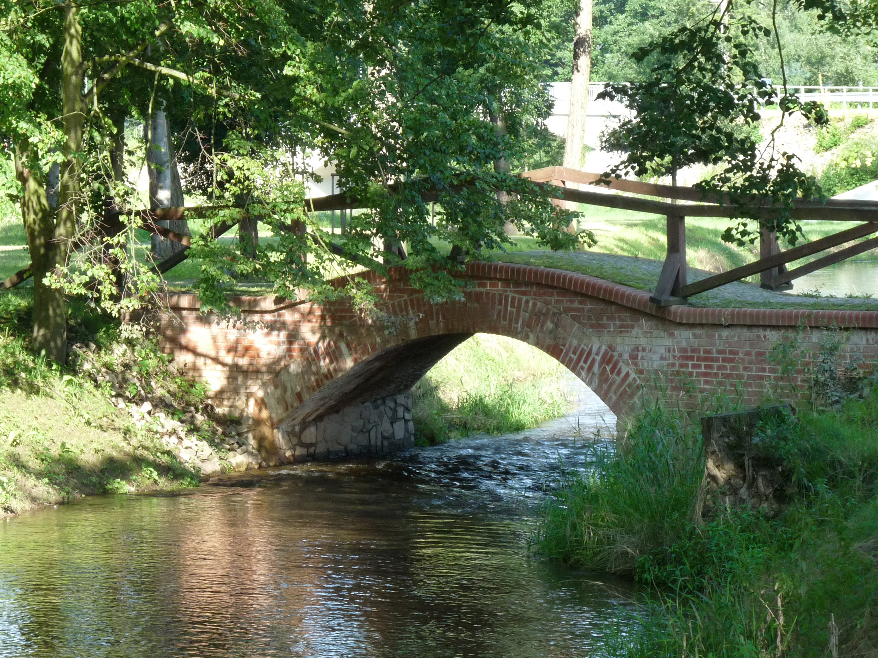 Old bridge in Plav, České Budějovice district, Czech Republic, the only bridge of this construction left in the area